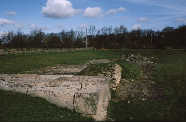 Source description says: "Bridge Abutments. Looking toward the River Tees from the south end of the Roman Bridge which followed a more direct line over the river and it was still in use well into the 13thC." View across Tees from Cliffe, Richmondshire. This bridge was once part of the Roman road Dere Street, which is now diverted.